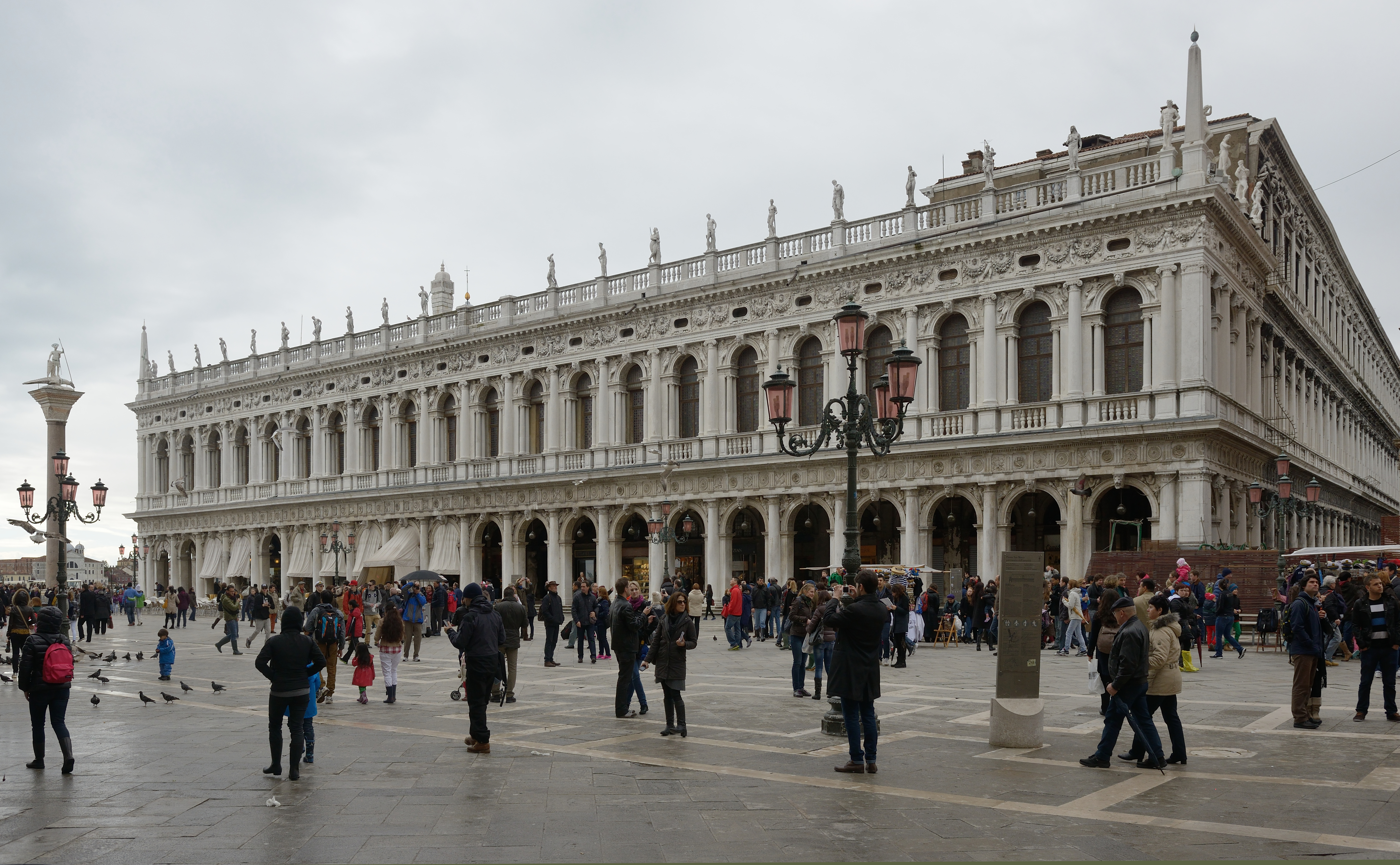 A rainy day at the Biblioteca Marciana and the Procuratie nuove palace in Venice.